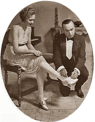 Evelyn Gosnell and John Cumberland in the 1920 play Ladies' Night